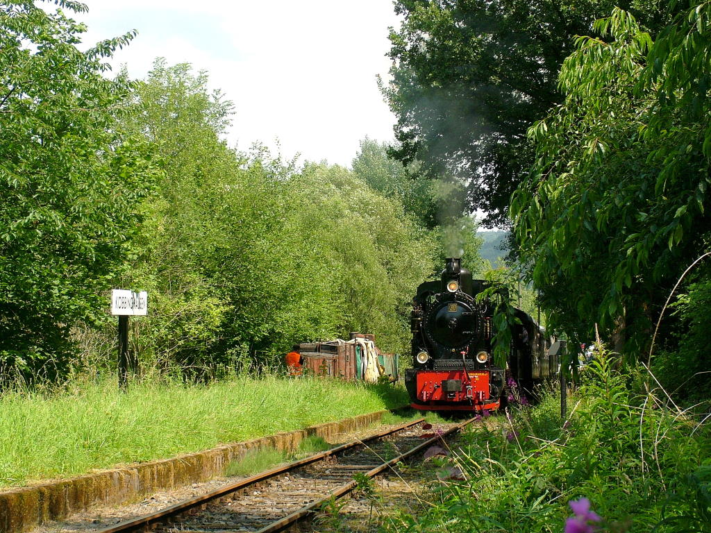 Old Platform at former stop Köbbinghausen on German Railway line Plettenberg-Herscheid, with museum train of Märkische Museums-Eisenbahn approaching